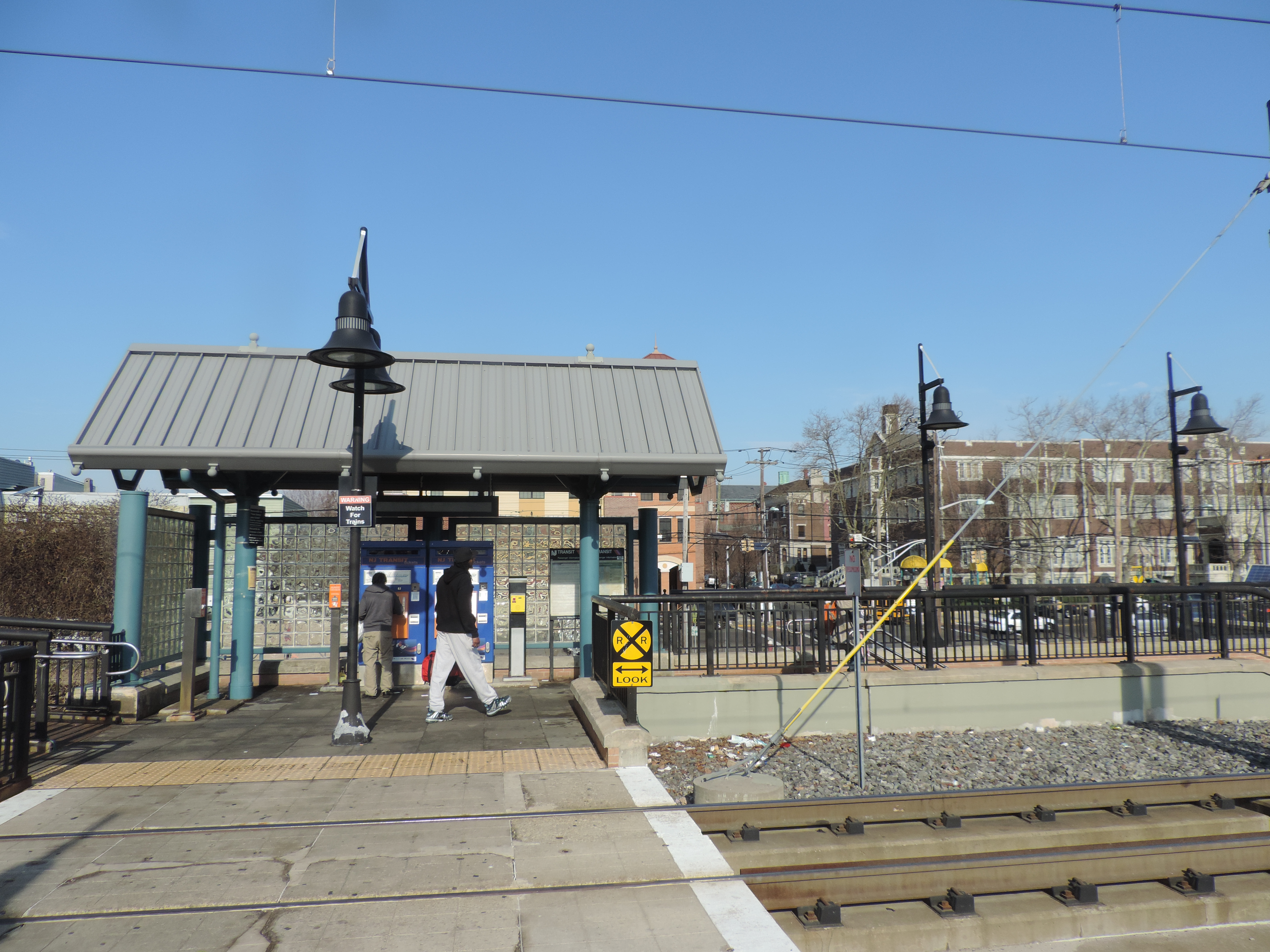 Looking west on the platform of the Hudson–Bergen Light Rail's 22nd Street HBLR station in Bayonne, New Jersey. Not retouched.